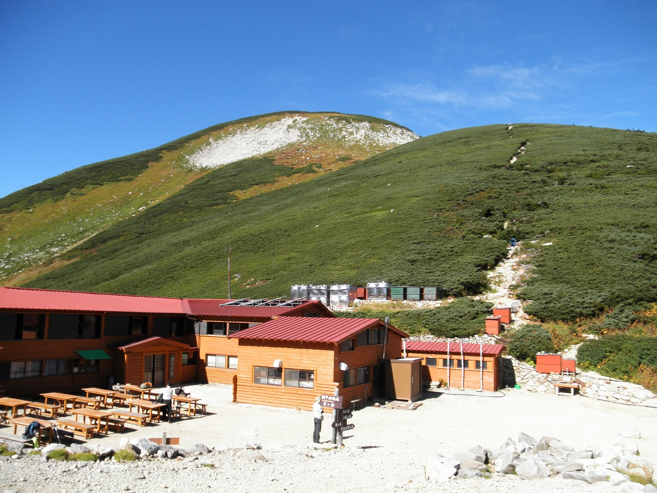 Sugorokugoya ("Sugoroku Hut") in September 2011